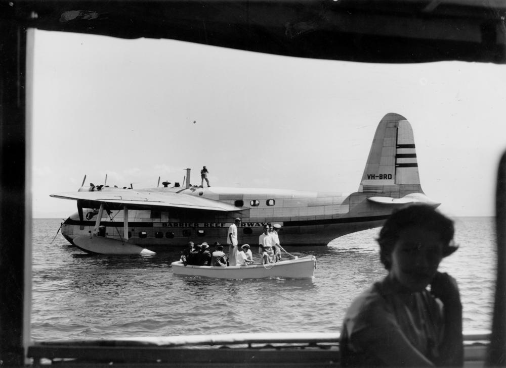 Seaplane at Hayman Island, owned by Barrier Reef Airways, May 1951 Barrier Reef Airways flew to Heron Island and Daydream Island. Founded after World War II by Captain S. Middlemiss and acquired by Ansett in 1950. (Description supplied with photograph) A small motor boat is ferrying the passengers back to land.